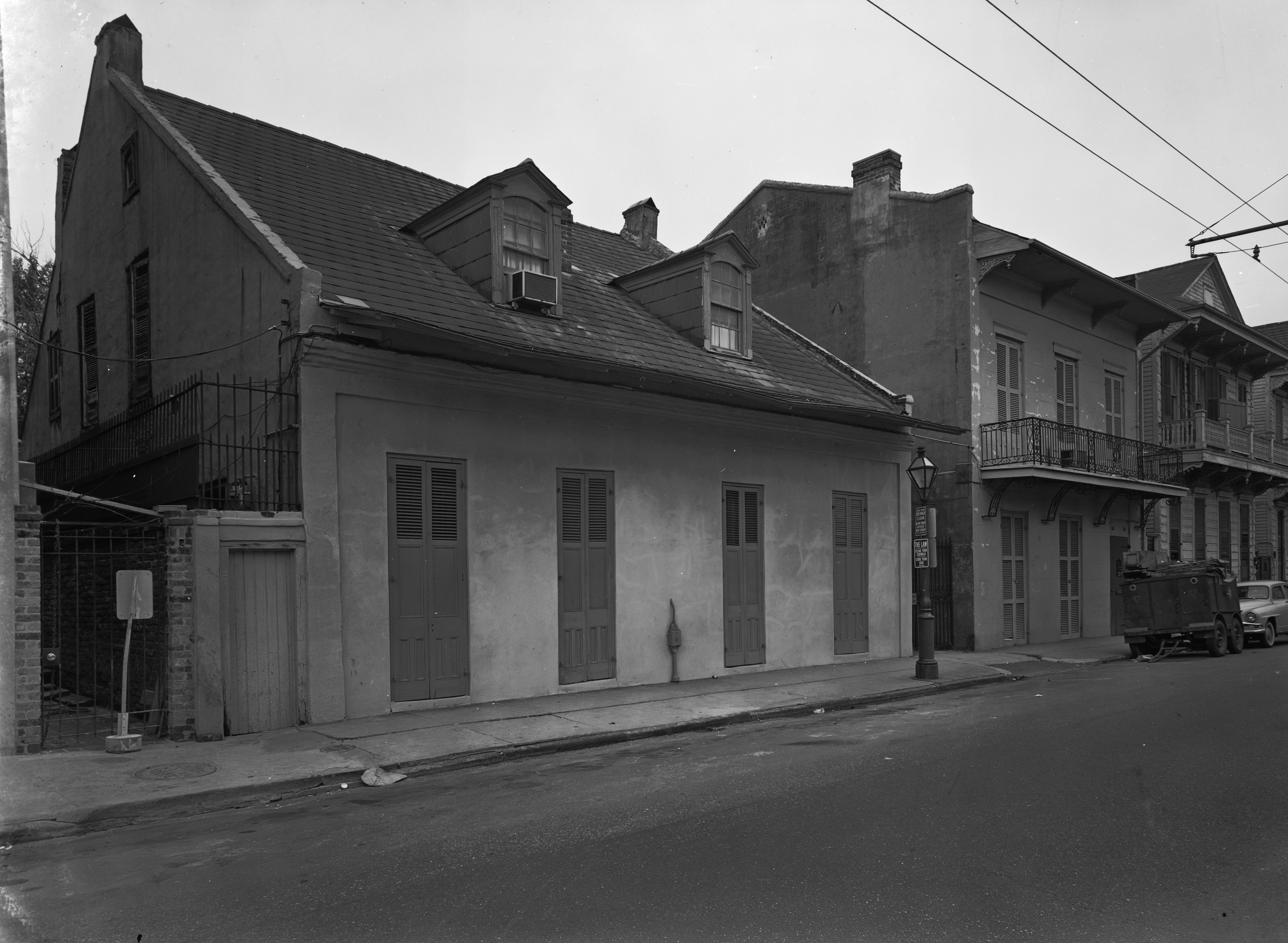 Latour & Laclotte's Atelier, 625-627 Dauphine Street, New Orleans, Orleans Parish, LA. SIDE AND FRONT. An example of a New Orleans Creole cottage.